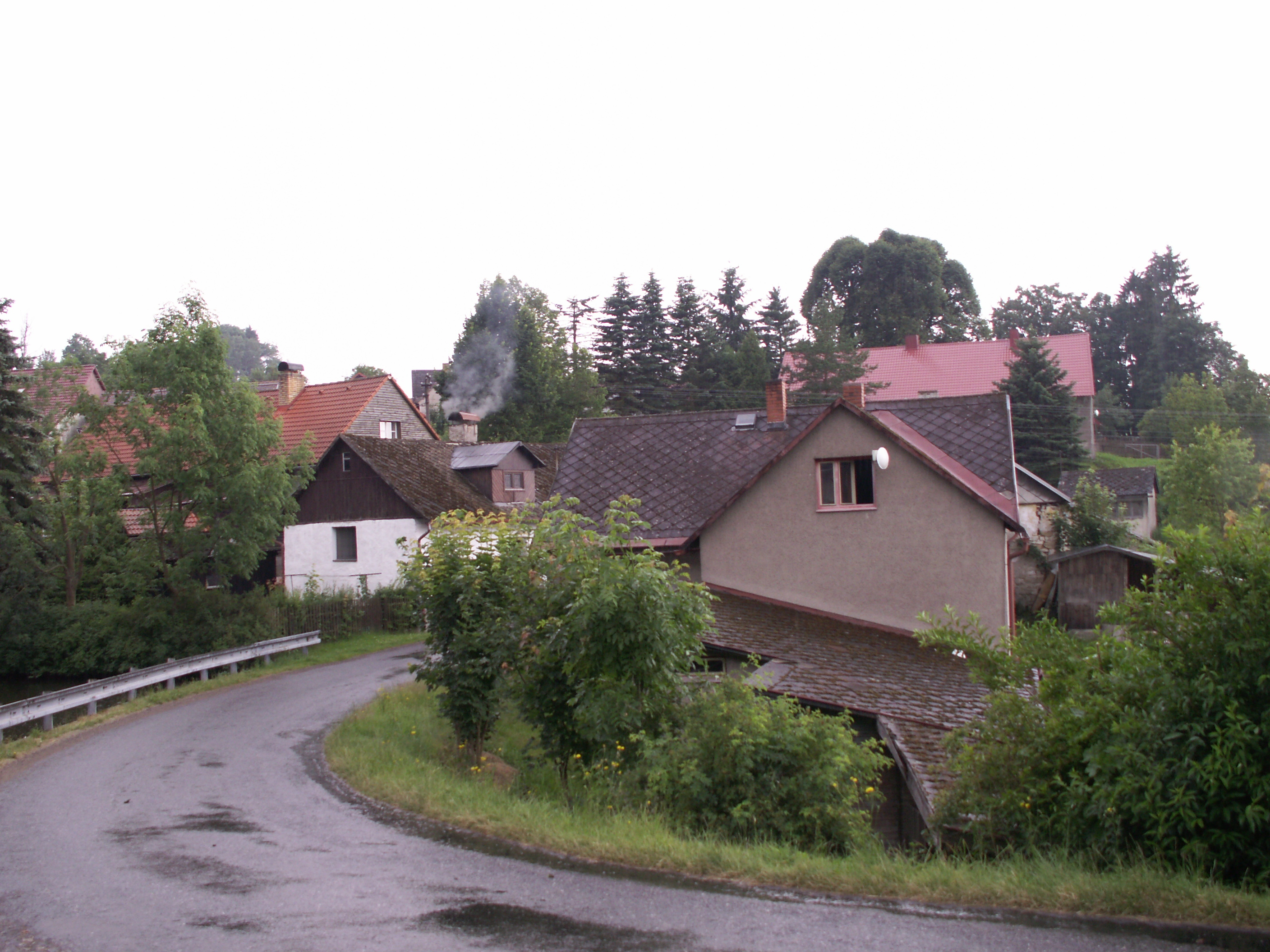 KONICA MINOLTA DIGITAL CAMERA, obec Hluboká, část městyse Krucemburk, okres Havlíčkův Brod, kraj Vysočina